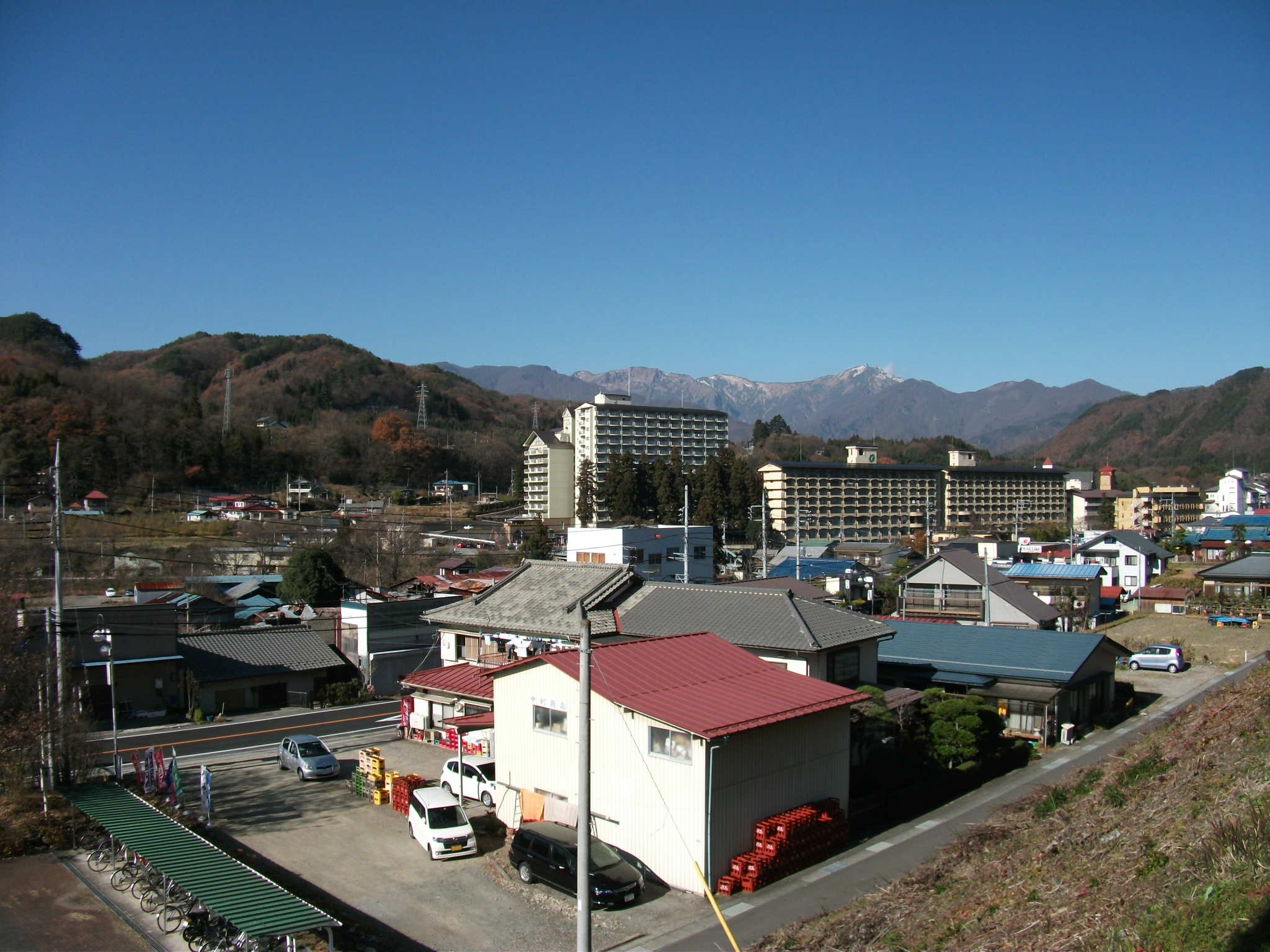 Kamimoku_Onsen (Gunma, Japan)